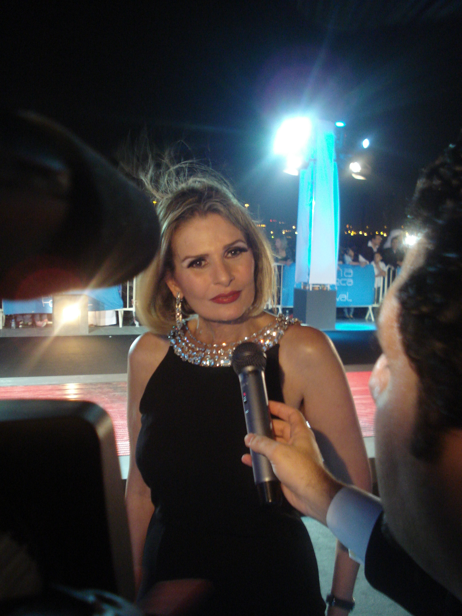 Yousra in Qatar 2009